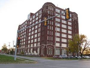 Sears